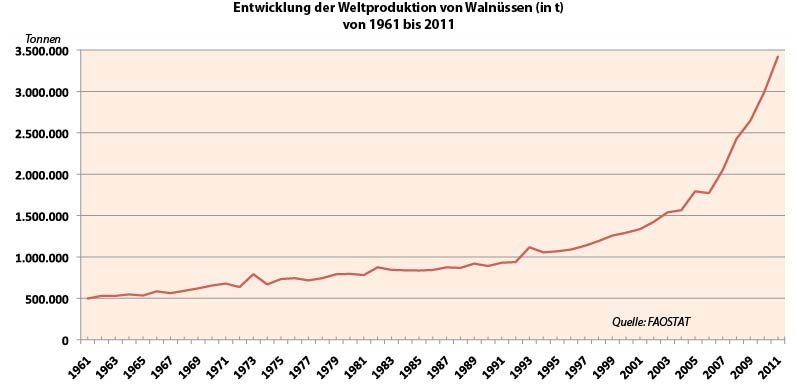 Development of the global production of walnuts 1961-2011 (tonnes, with shell)